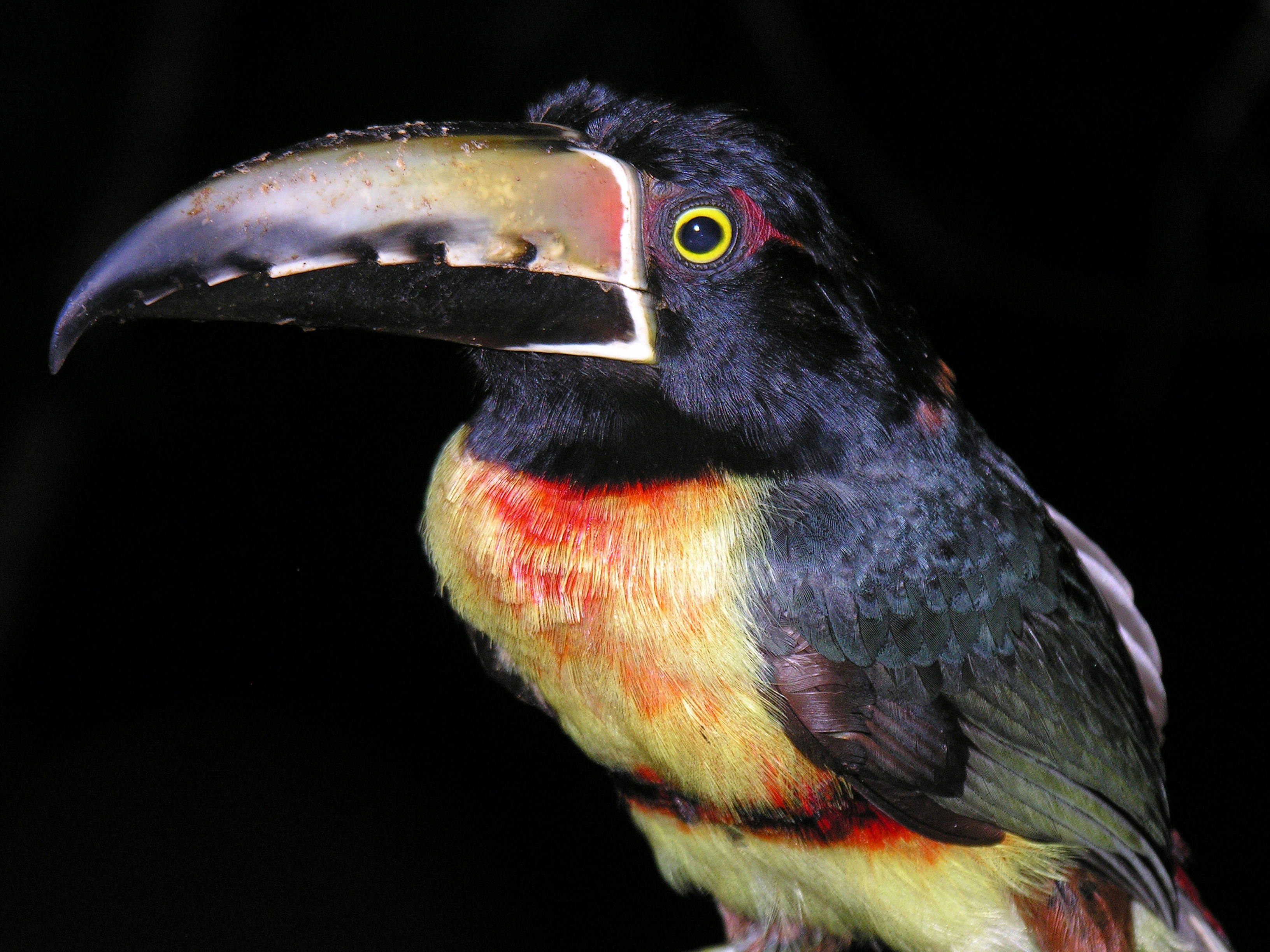 PLEASE, no multi invitations in your comments. DO NOT FEEL YOU HAVE TO COMMENT.Thanks. Collared Aracari Toucan I got a picture of while in Belize at DuPlooy’s Jungle Lodge in the rain forest.